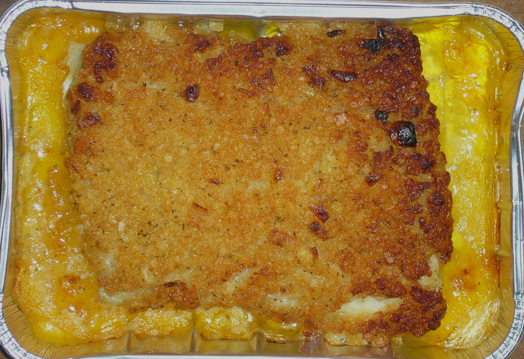 Baked Fish